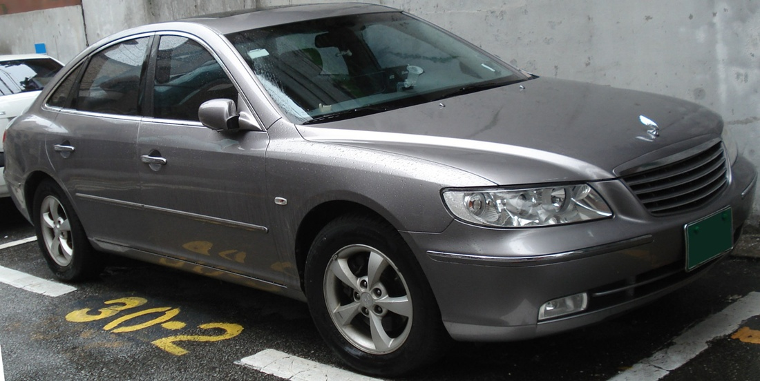 Hyundai Grandeur